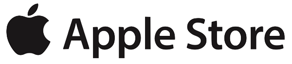 Apple Store Retail logo